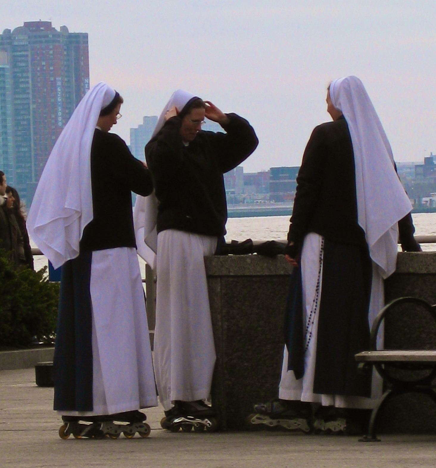 a drive home doesn't get much better than sisters on skates... since the PA turnpike was closed, we plotted a route on I-80 into the city. all was going well, and we were right on schedule when i accidentally took the road to the lincoln tunnel. fortunately, i had my phone on my and was able to rock some VZ Navigator. i really believe that GPS can save a relationship and make lost into laughs :)